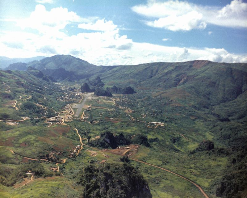 Long Tieng, Laos, in December 12, 1973